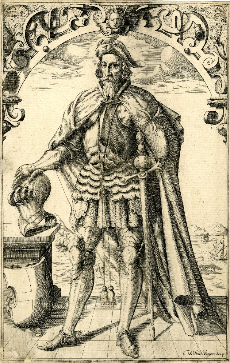 "Sir Thomas Docwra," dressed in armour as a Knight of St John of Jerusalem (Knights Hospitallers), standing on a platform with ships in the background in the distance. Engraving by the English engraver and artist William Rogers. 250 mm x 160 mm. British Museum, London.